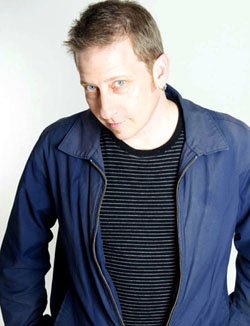 Publicity photograph of musician Daniel House, November 2009